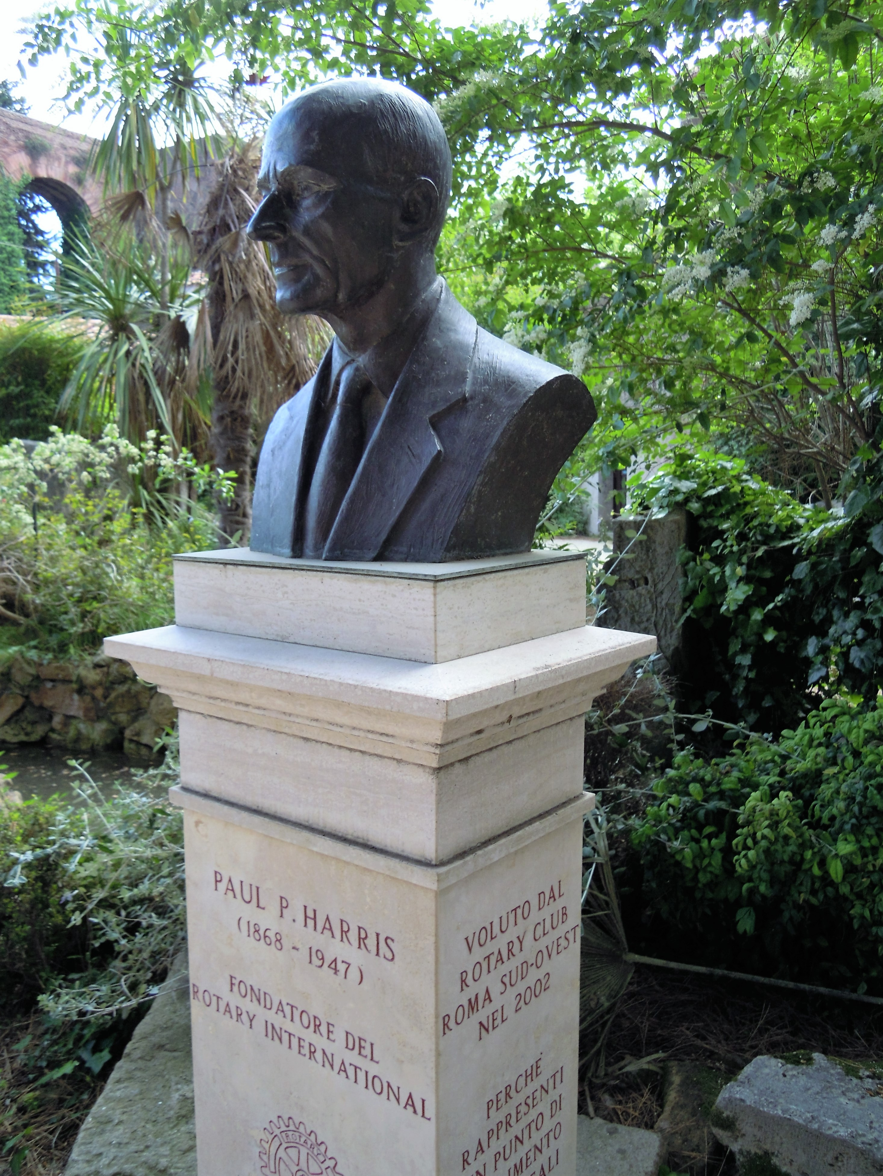 Rome: bust of Paul Percy Harris in Villa Celimontana